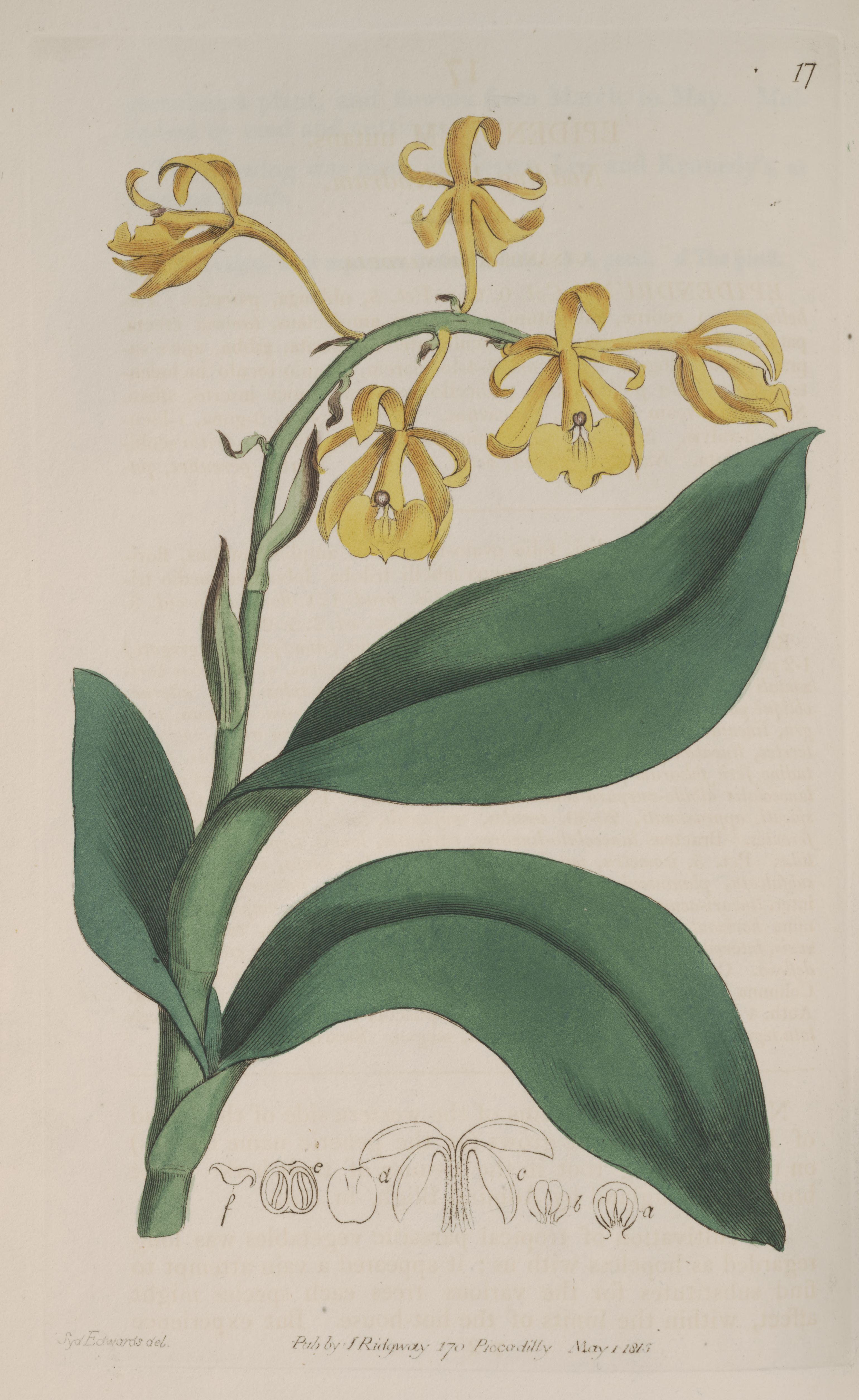 Illustration of Epidendrum nutans